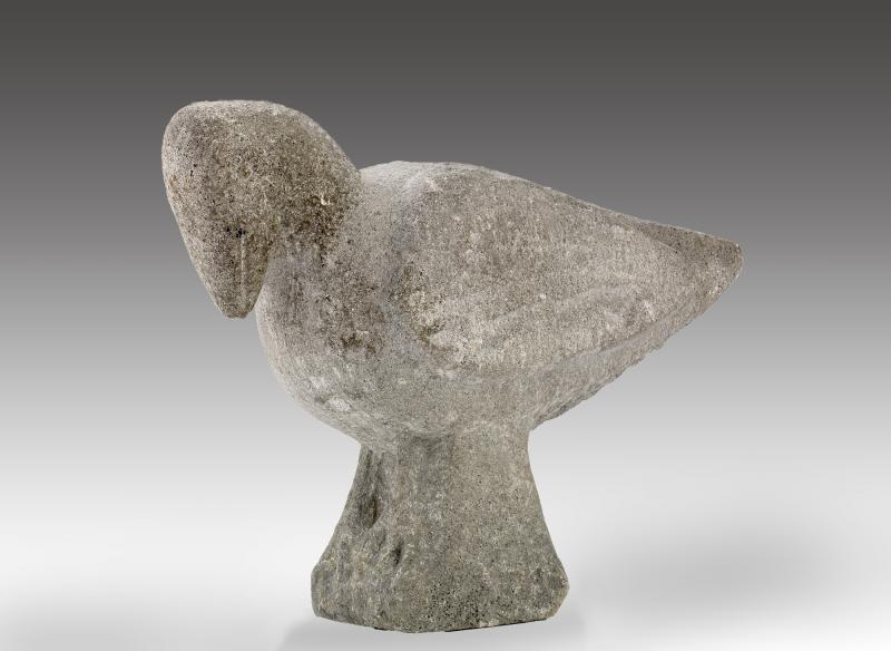 William Edmondson, Untitled (Bird), ca. 1937, carved limestone, Smithsonian American Art Museum, The Margaret Z. Robson Collection, Gift of John E. and Douglas O. Robson